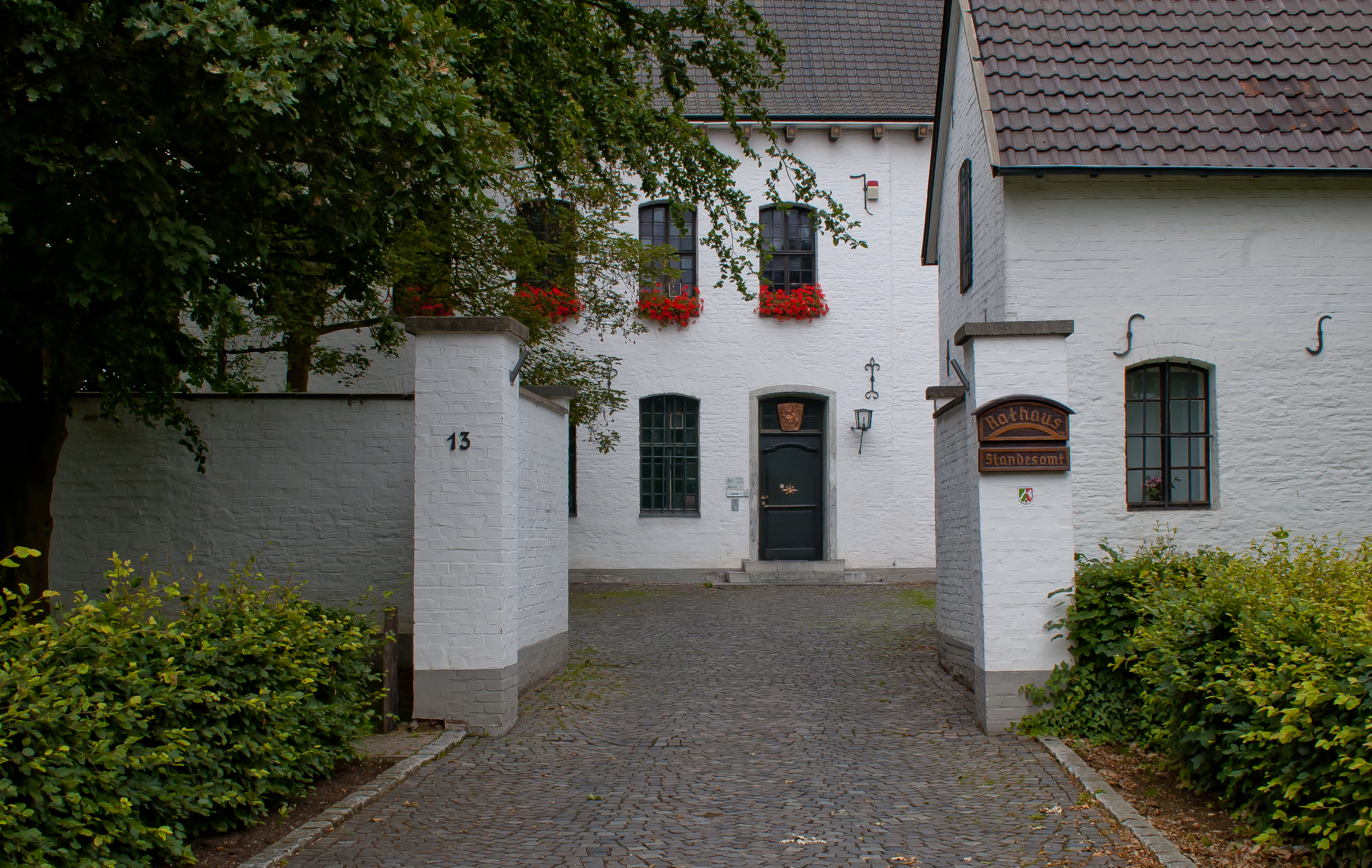 The so called "Schlösschen" ("little chateau")in Waldfeucht, Germany, former mansion and now domicile for the municipal administration of the borough of Waldfeucht